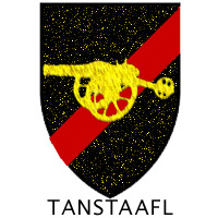 The flag of the libertarian anarchist Republic of Luna, described in The Moon is a Harsh Mistress, by Robert Heinlein